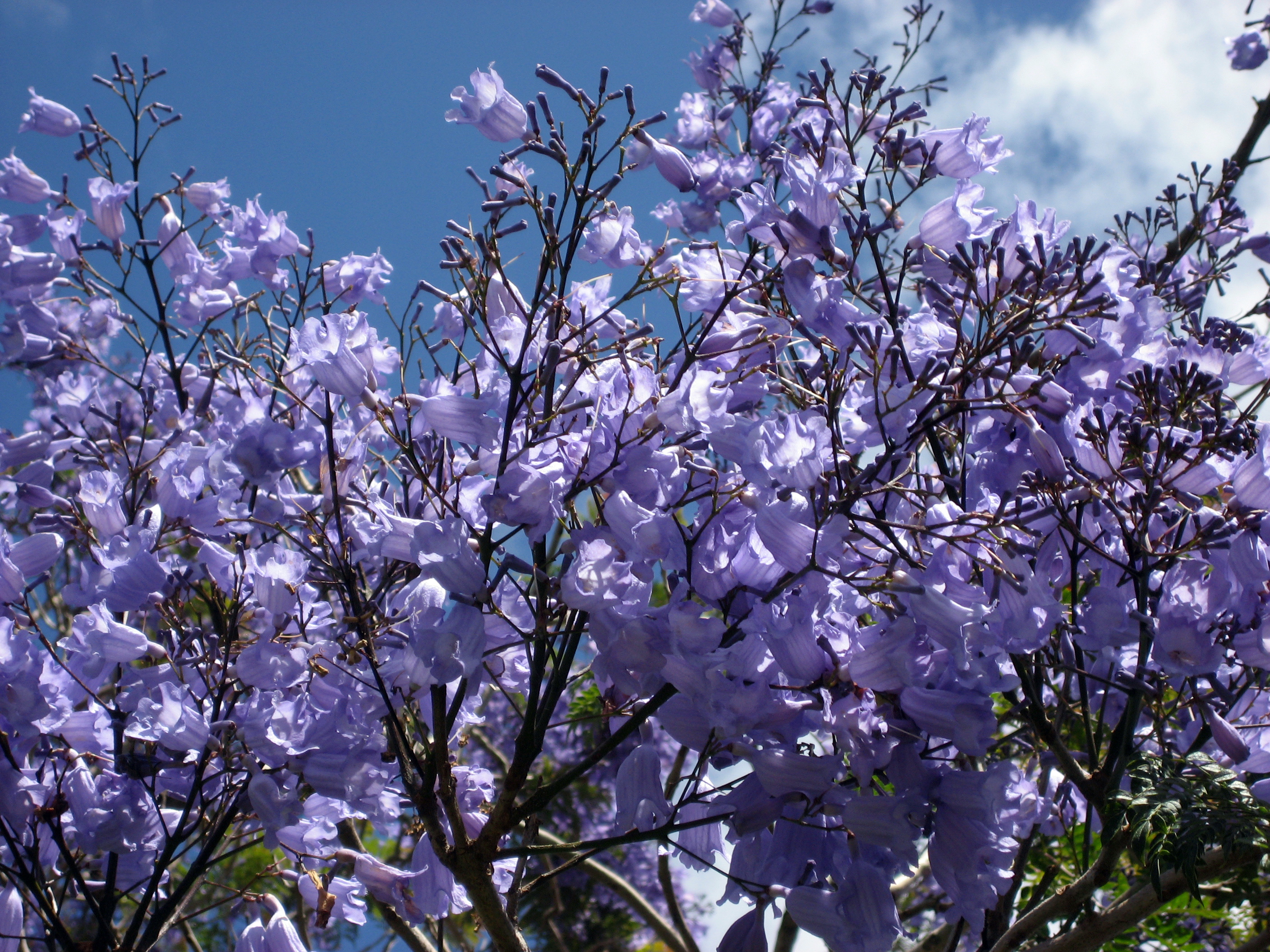 flowers of the Jacaranda tree, Mount Wellington, Auckland, New Zealand